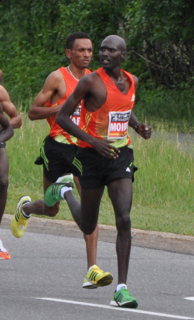 Eventual winner and new course record holder Laban Moiben (front) and Dereje Abera at the 18 km mark during the 2012 Ottawa Marathon.